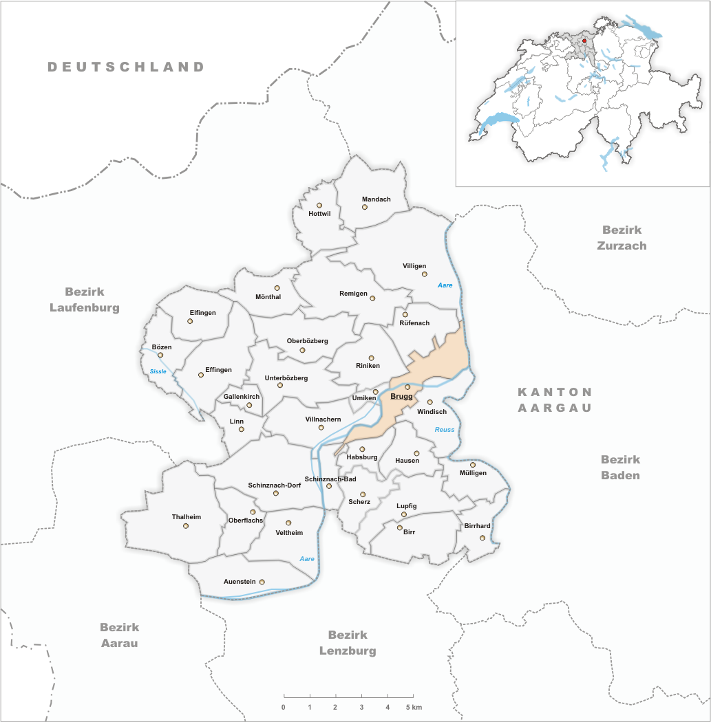 Municipality Brugg